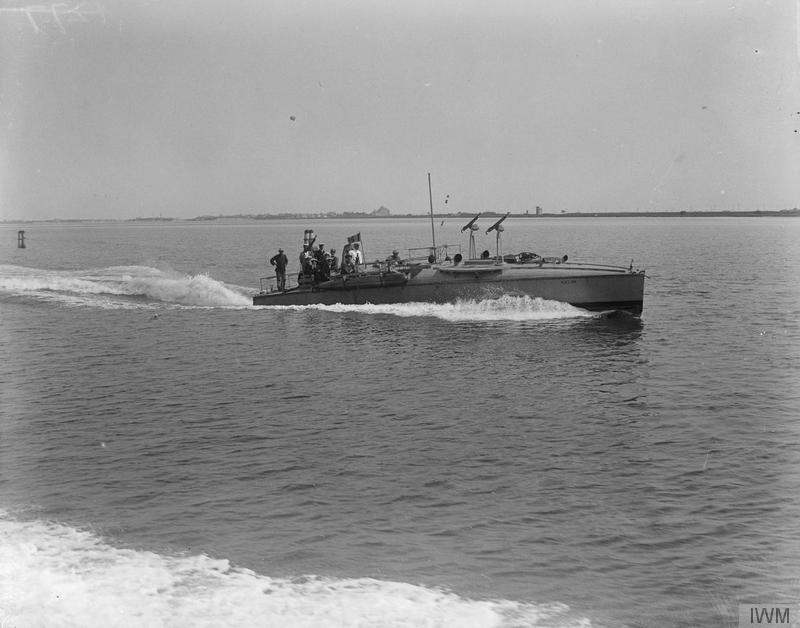 The Italian Navy in the Mediterranean, 1915-1918 An Italian motor launch carrying two machine guns on anti-aircraft mounting.